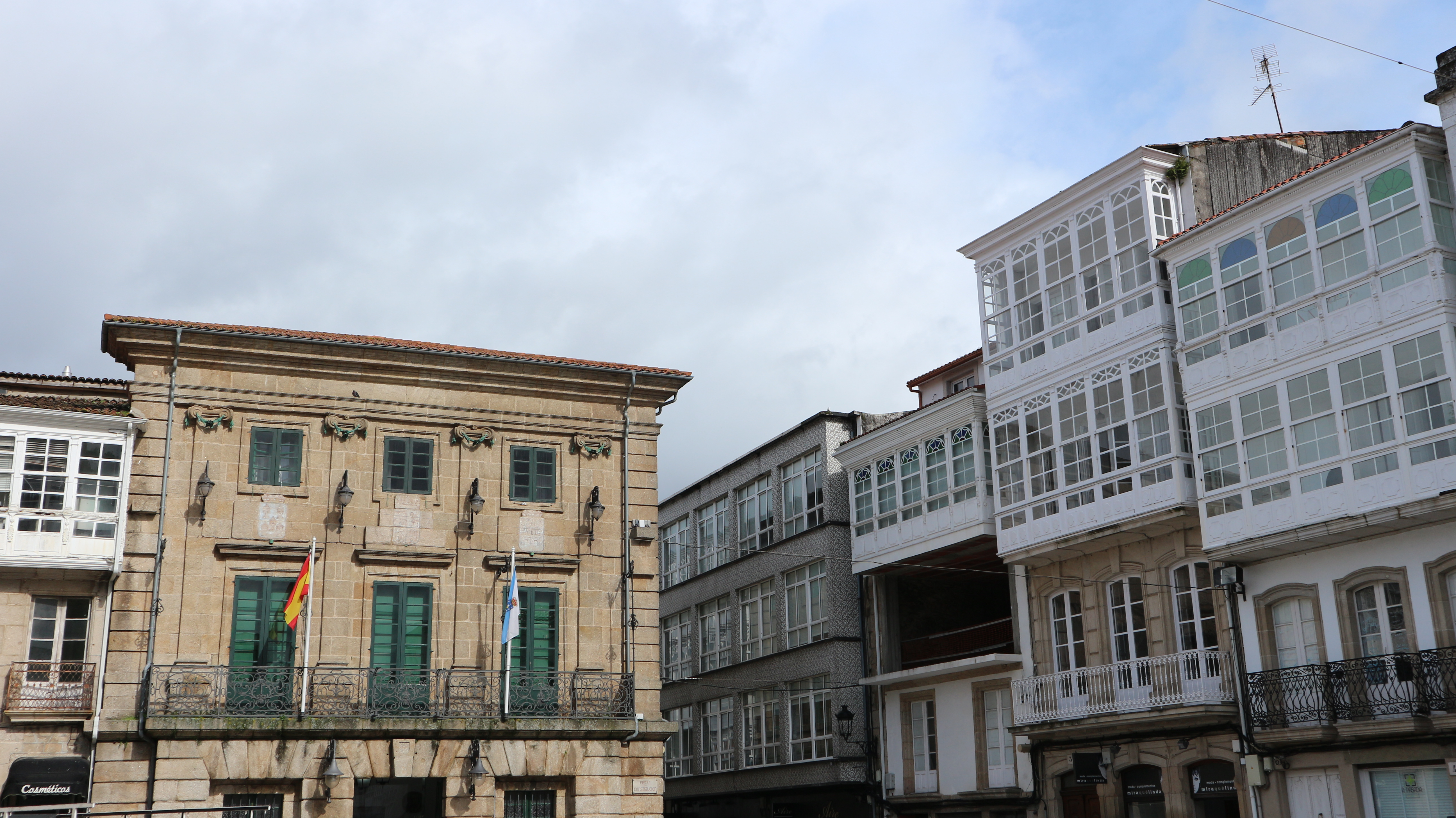 Town Hall of Betanzos.